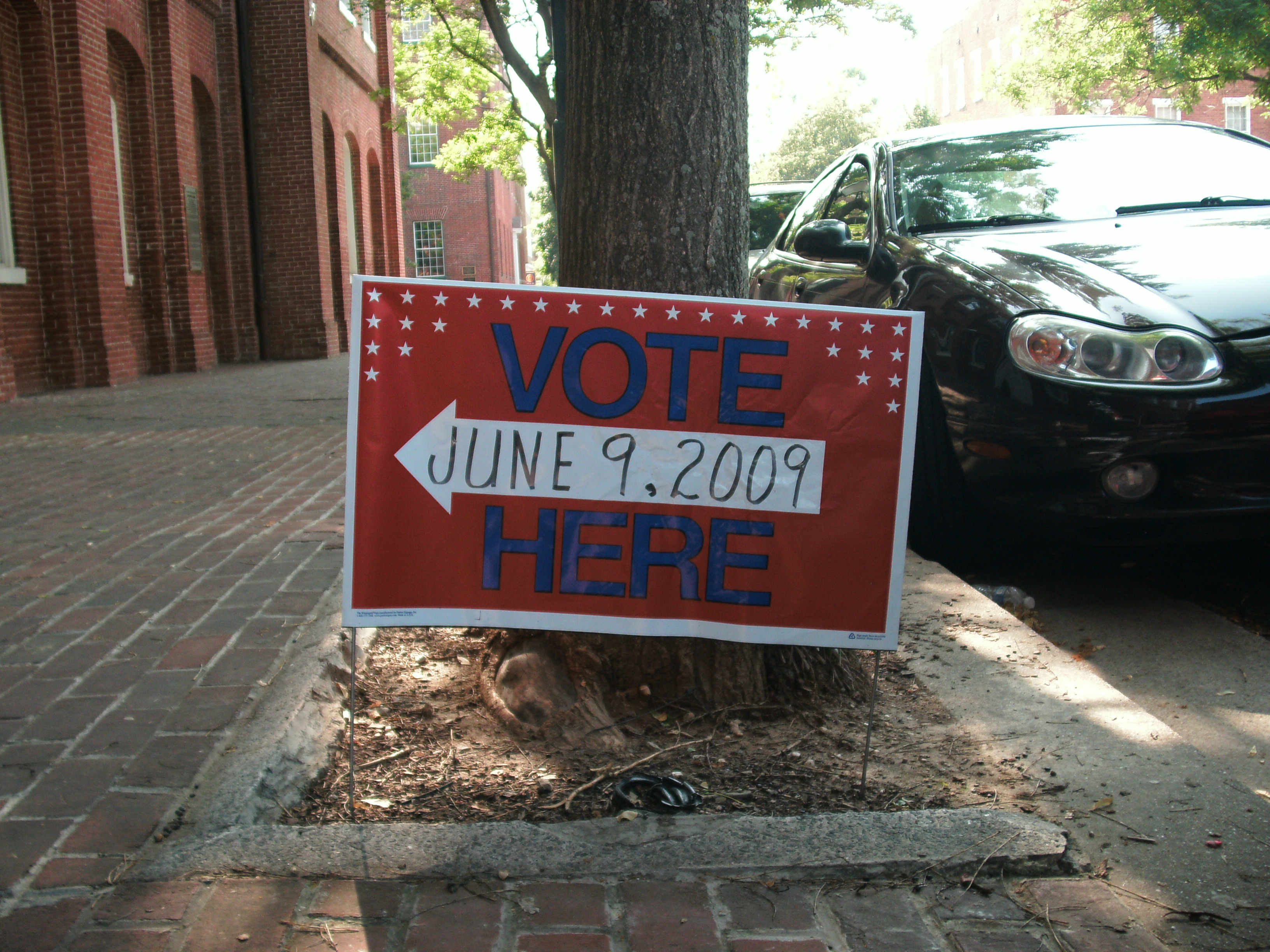 Image I took for Wikipedia